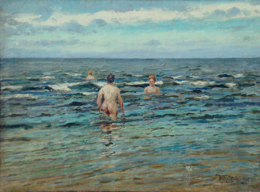 This is picture by russian painter Konstantin Gorbatov "Купальщицы" (swimming women)